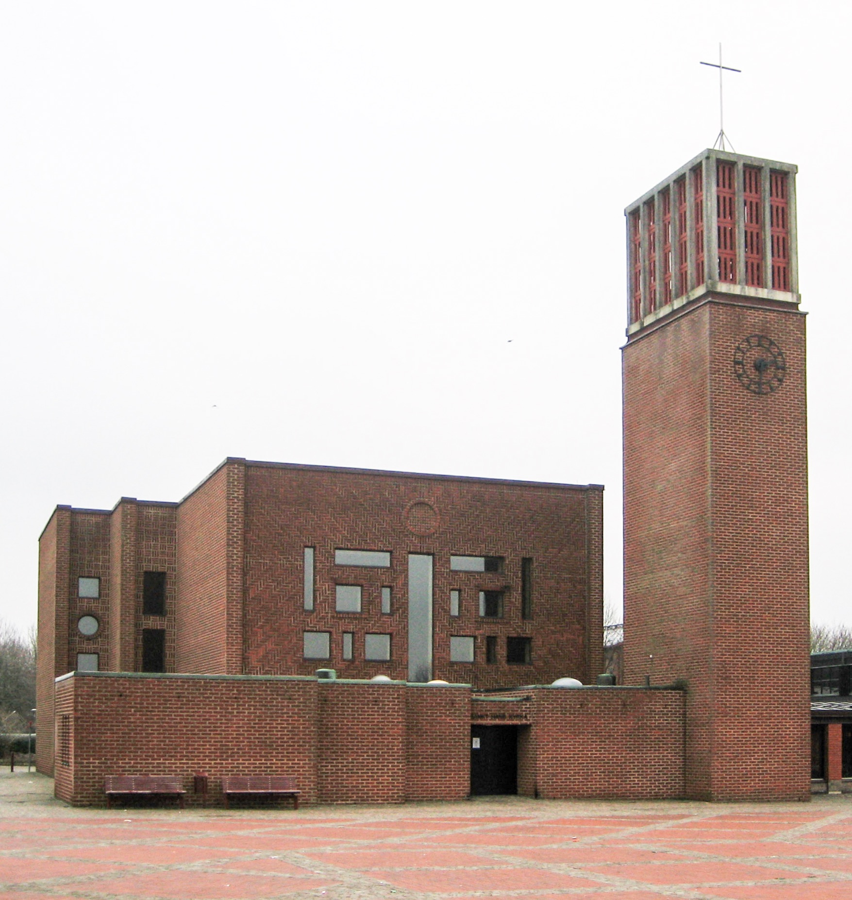 St. Hans church in Lund, Sweden. Photo taken by the uploader 081231.